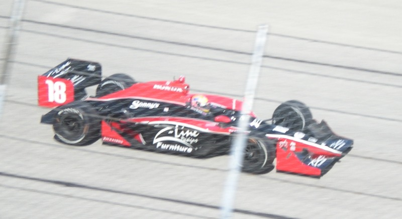 Justin Wilson racing at the Milwaukee Mile in 2009.